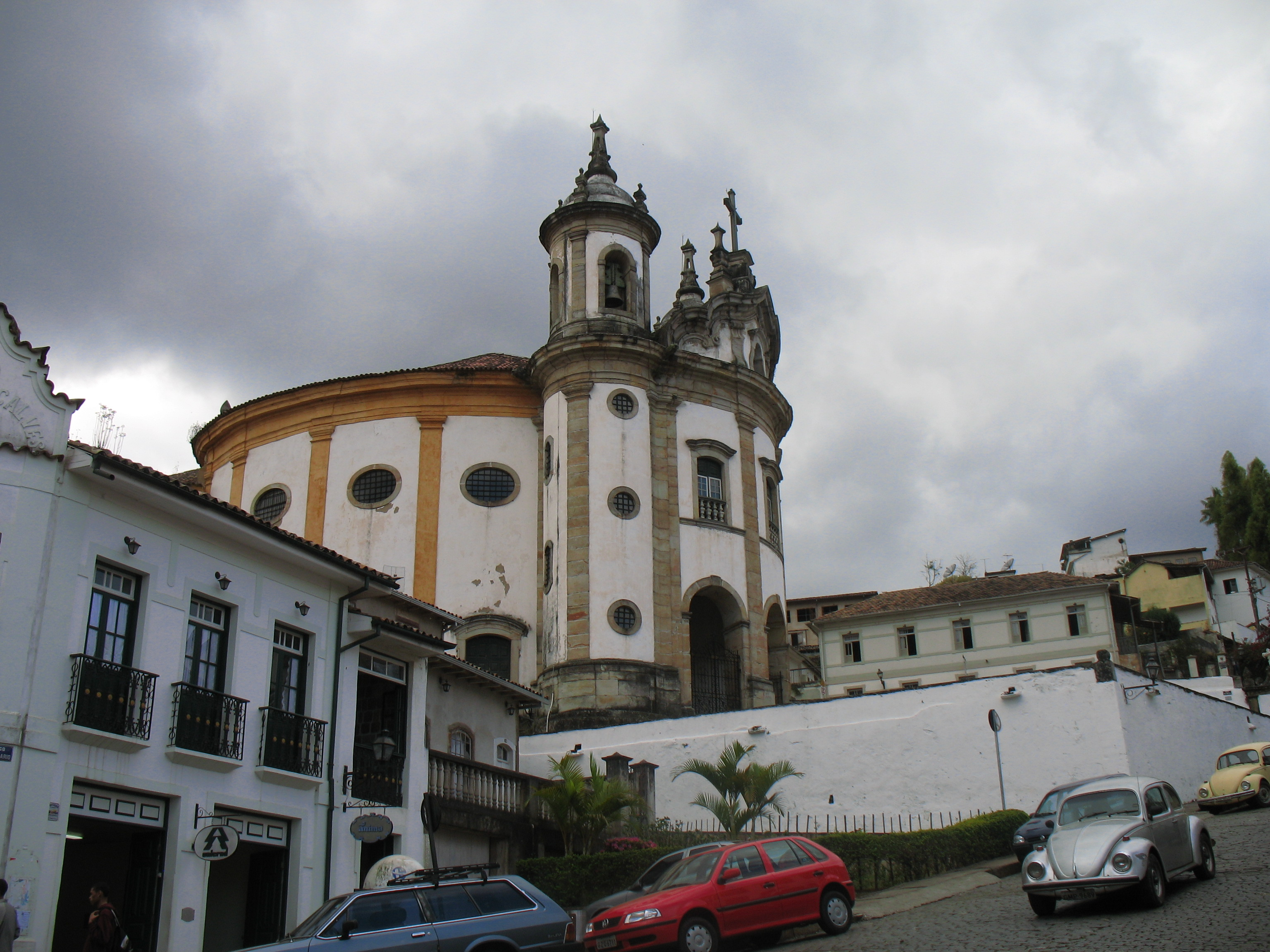 Antônio de Sousa Calheiros and Manuel Francisco de Araújo Church of the Lay Order of Our Lady of the Black Men's Rosary Ouro Preto, ca. 1763–1784